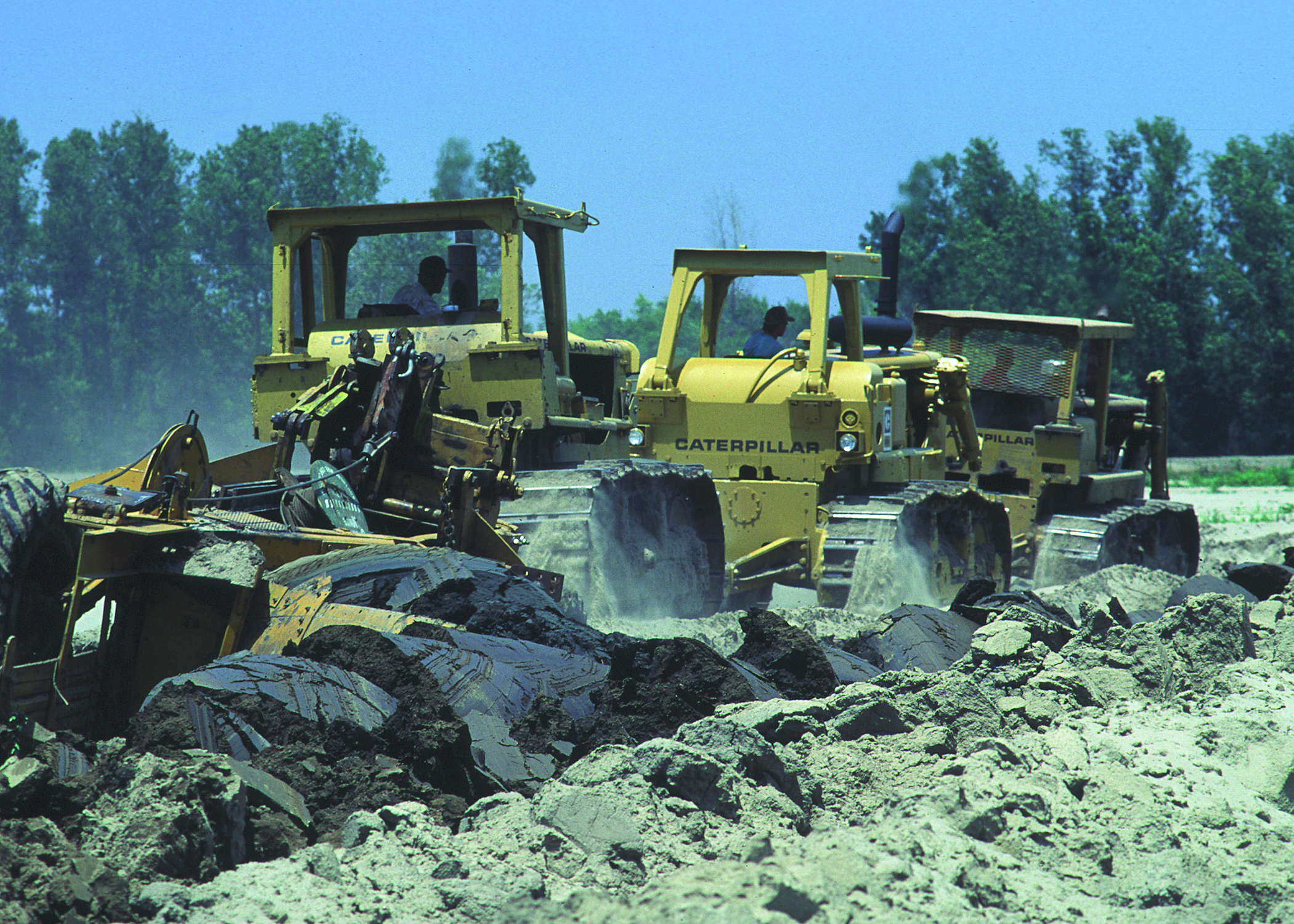 Contractors use deep plows to try to restore fetility to flood-damaged cropland